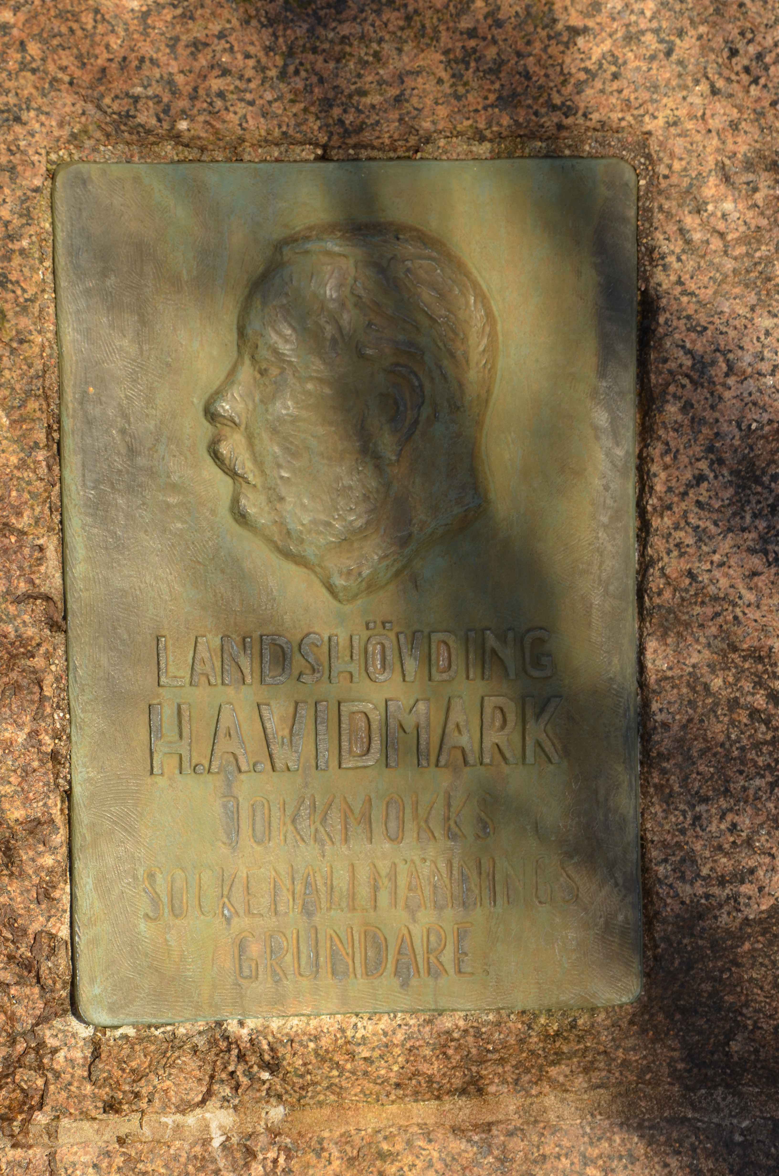 Runo Lettes porträttrelief av Adolf Widmark på sockeln till skulpturen Timmerflottaren i Jokkmokk, brons, 1954